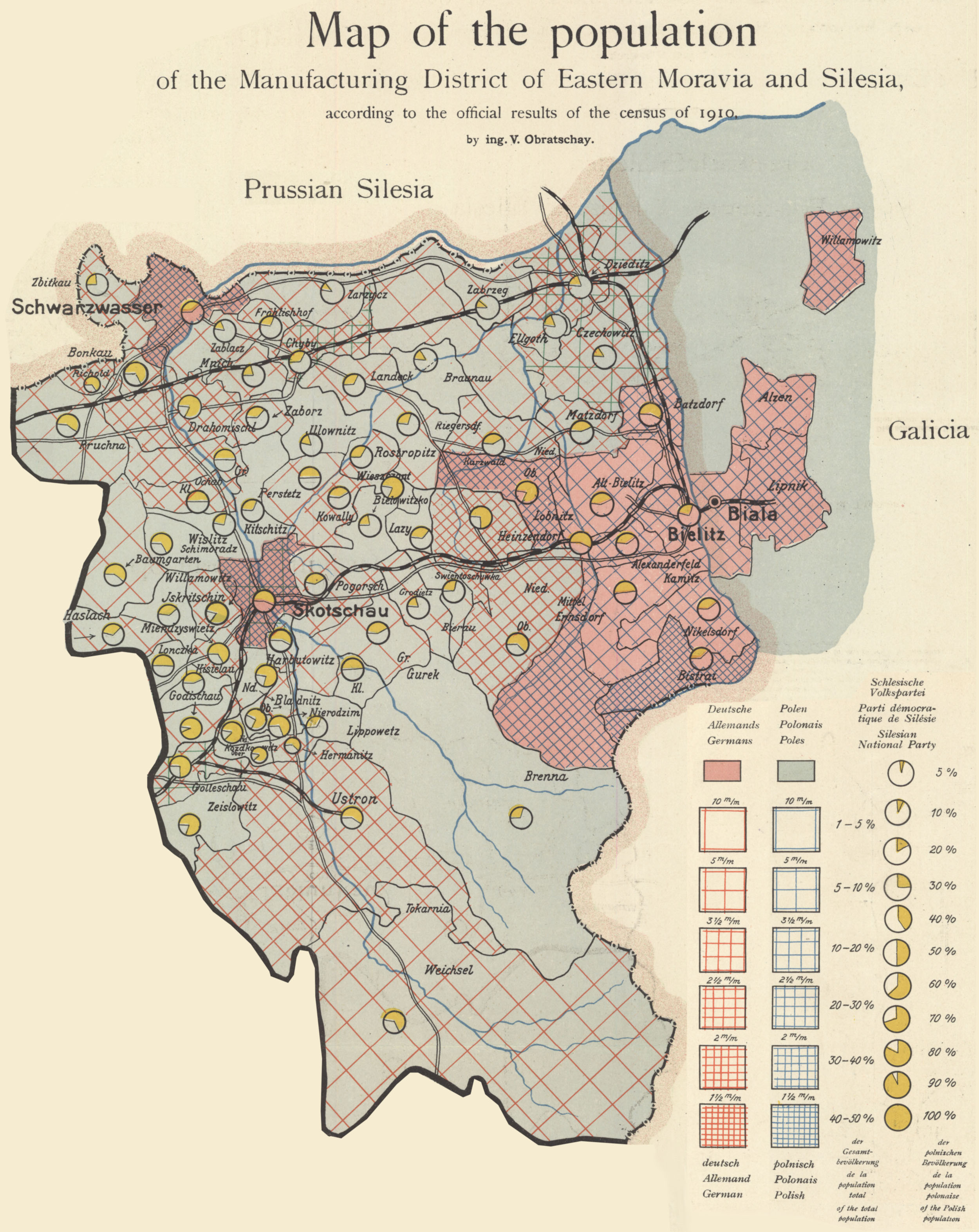 Cropped version of the File:Map of the population Manufacturing Distrct Eastern Moravia and Silesia.jpg to schow the Bielitz-Biala Language island.